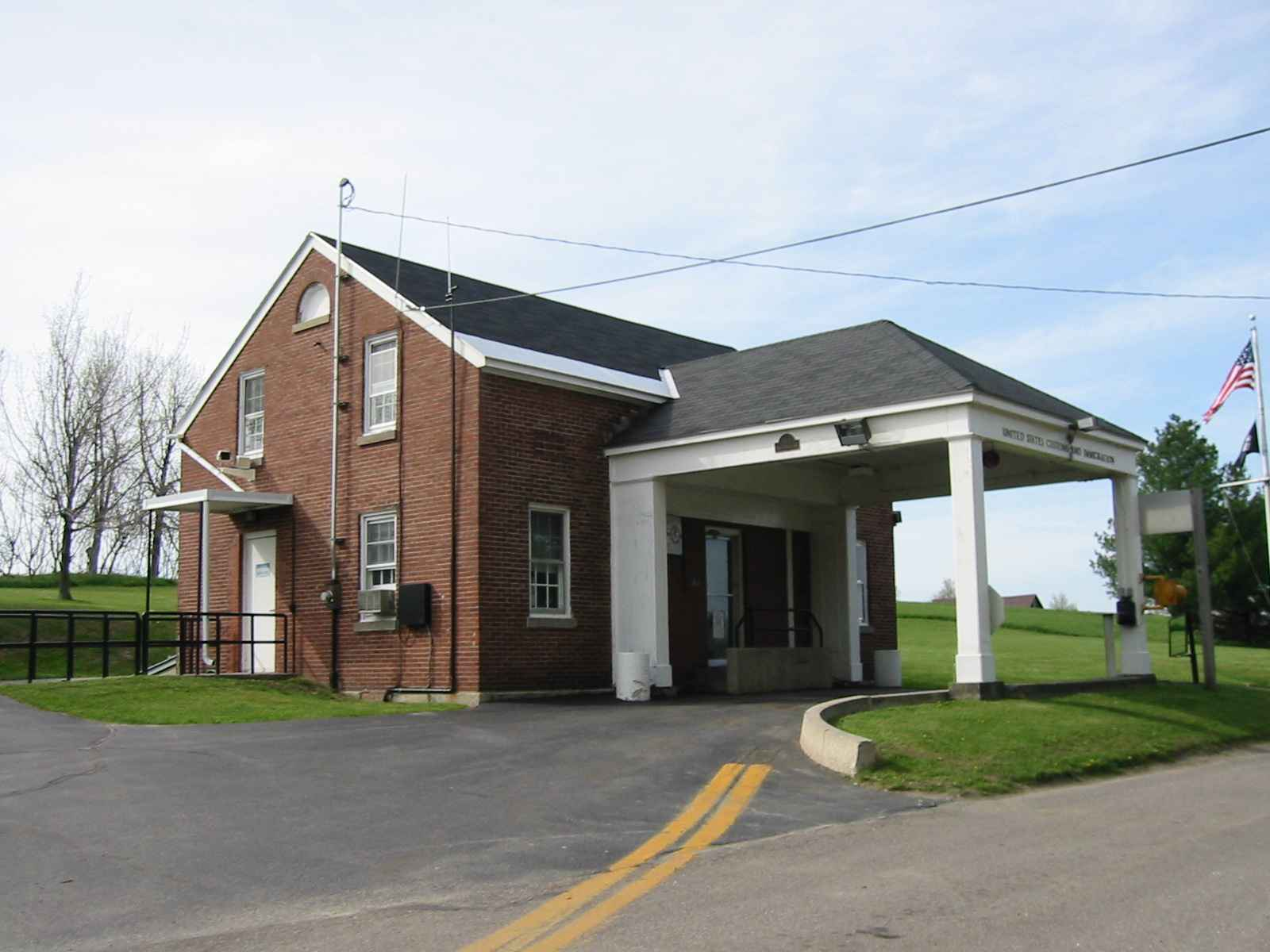 Alburg Springs, VT port of entry